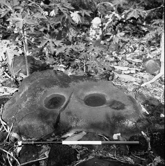 Grinding stones, Samoa archaeology, 1957.